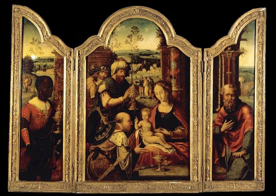 Triptych